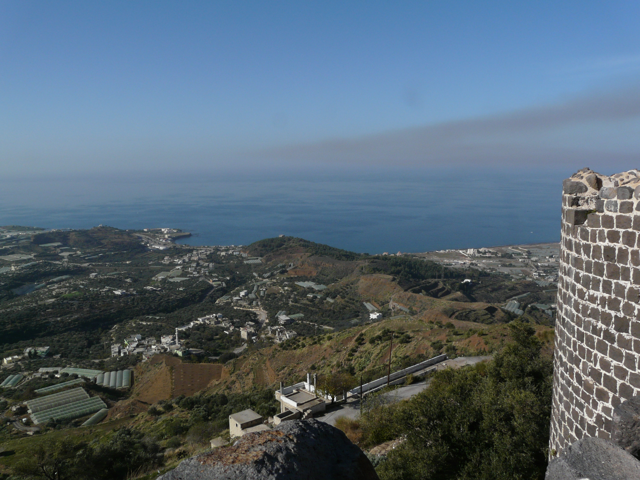 Baniyas from over Marqab castle.